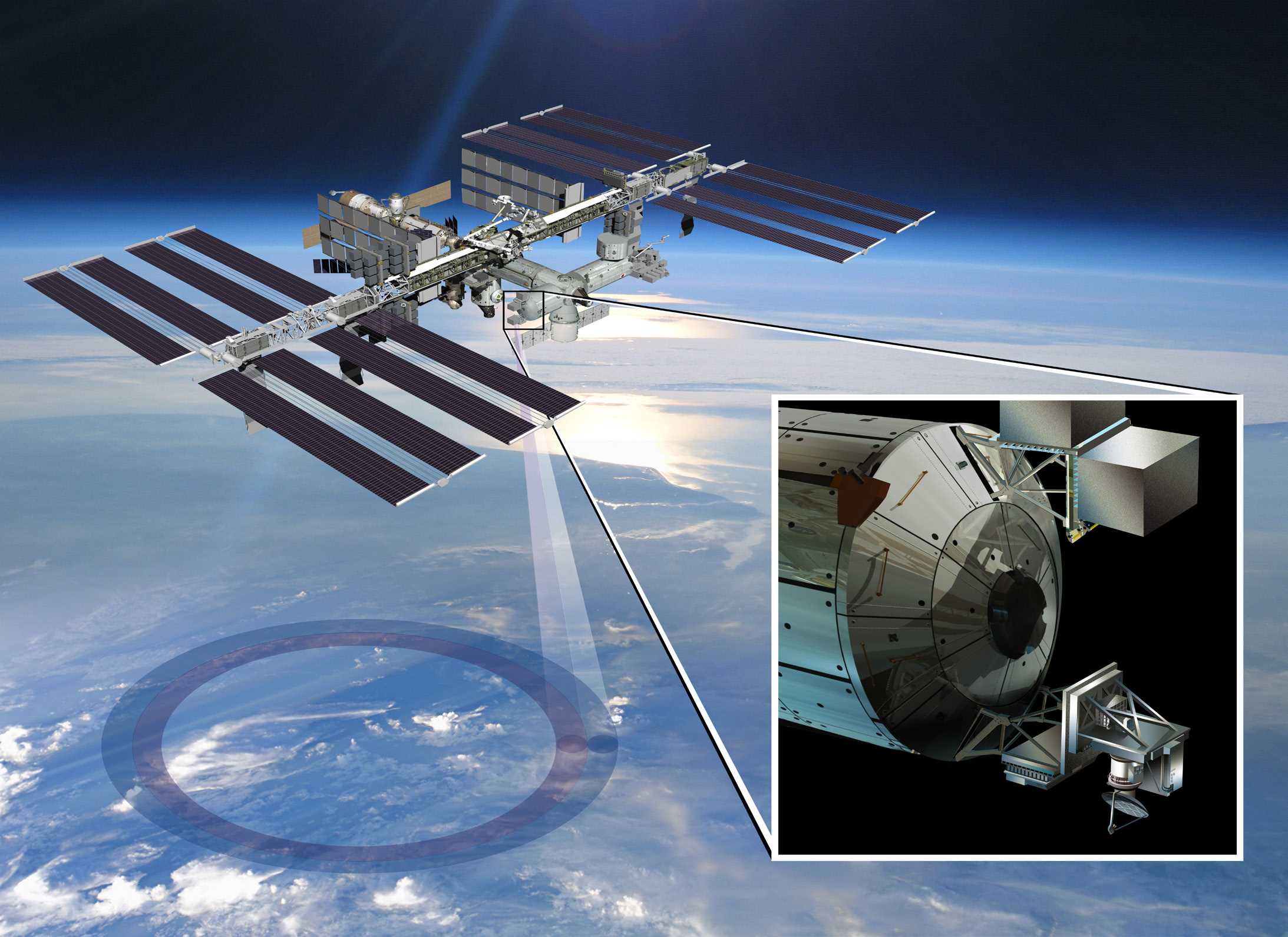 Artist's rendering of NASA's ISS-RapidScat instrument attached to the Columbus module (inset).